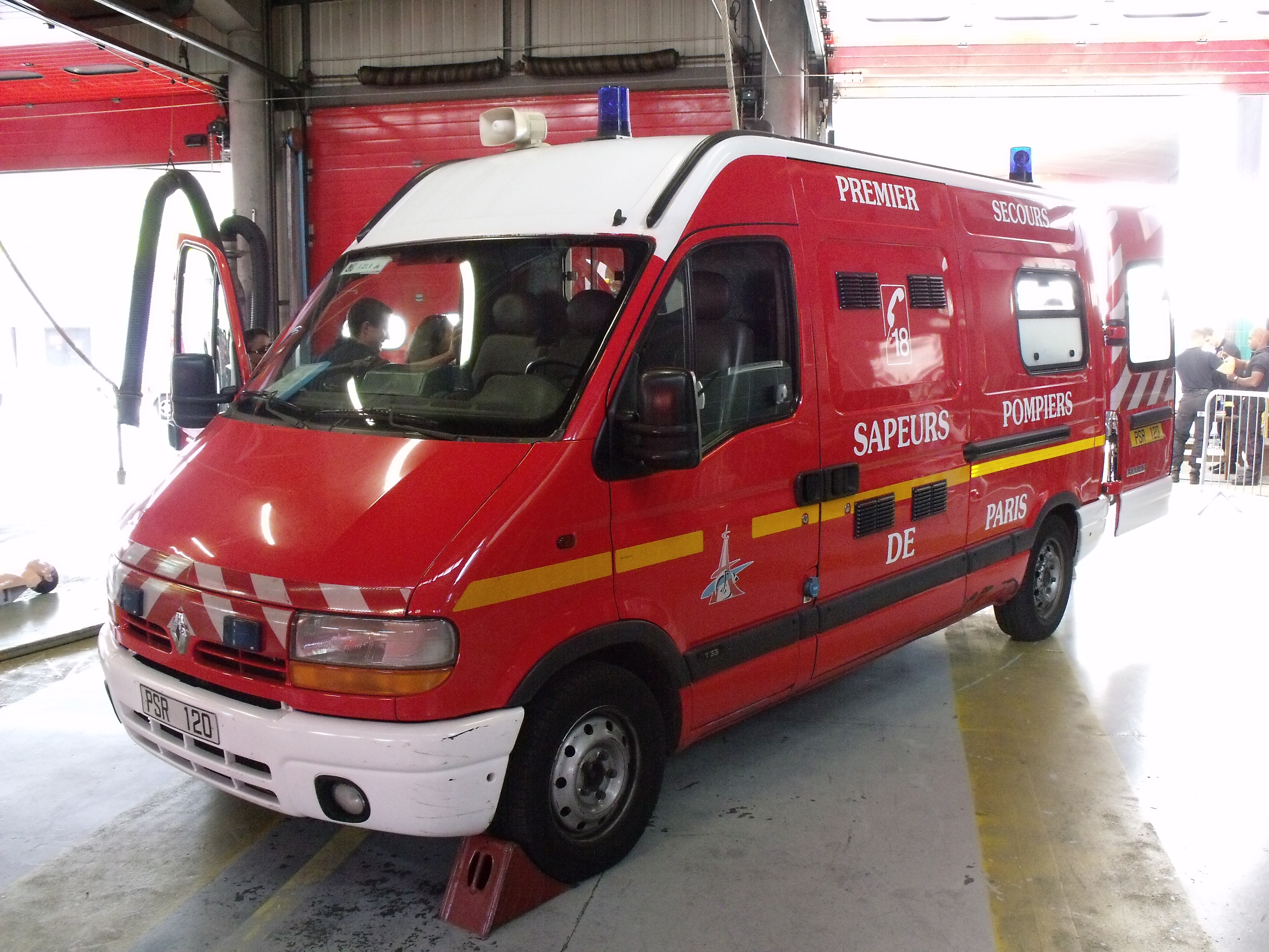 Former light ambulance Renault PSR120 from Paris fire brigade.